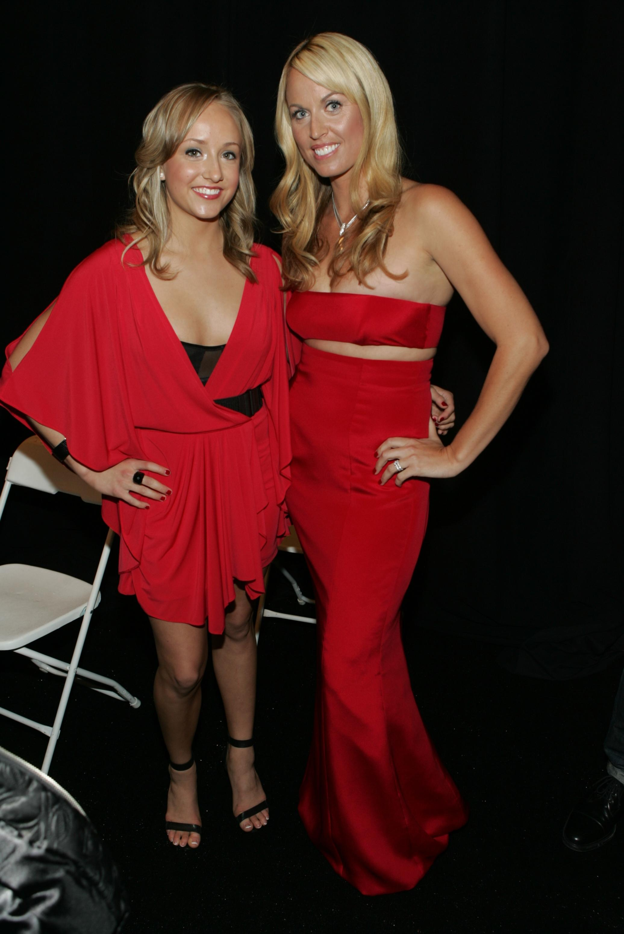 Nastia Liukin (left) and Amanda Beard back stage at the 2009 Heart Truth fashion show.